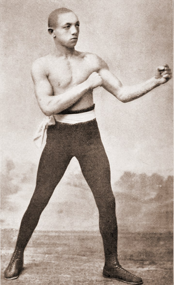 Photograph of George Dixon